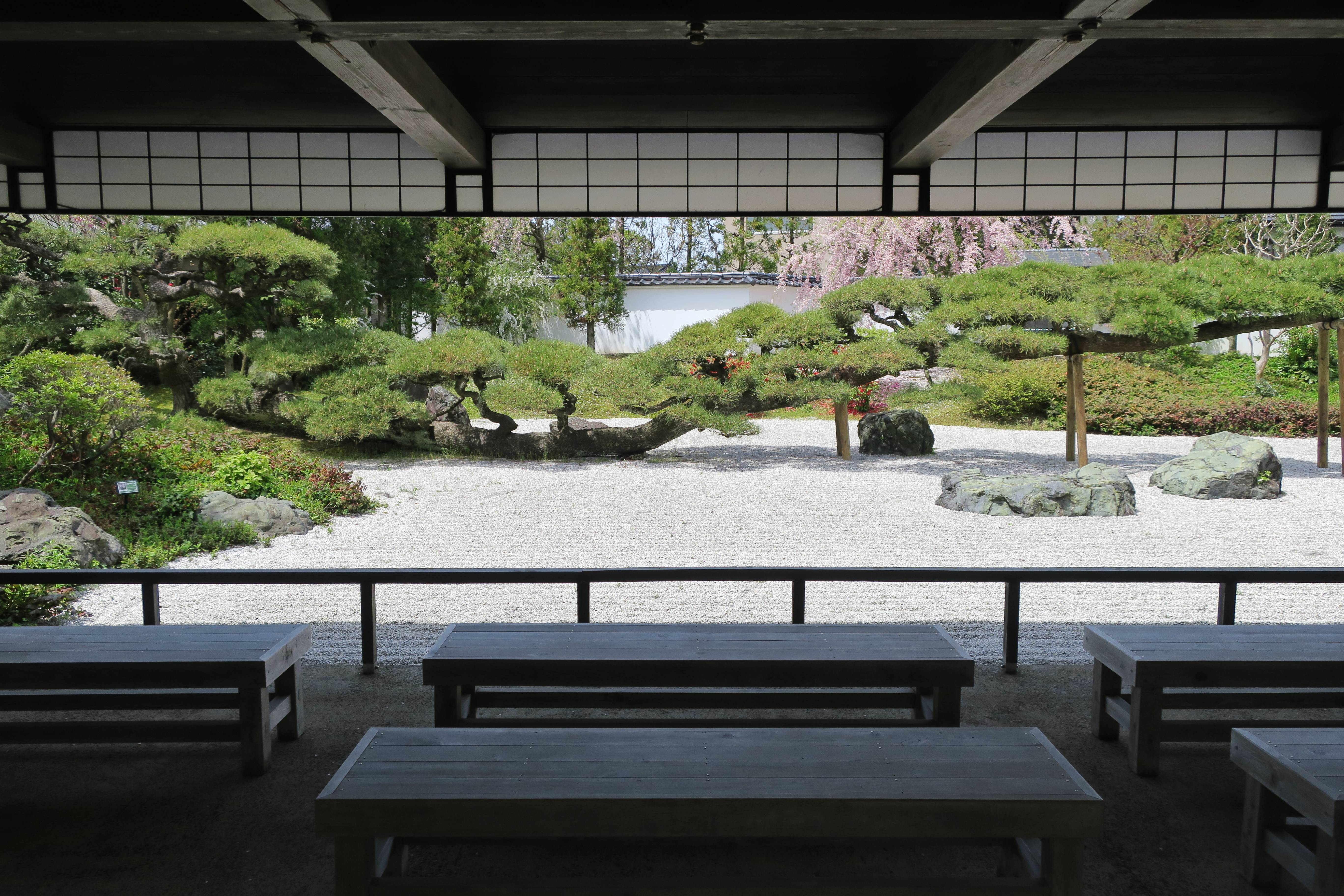 Nenju no Matsu (Tsuruoka, Yamagata).